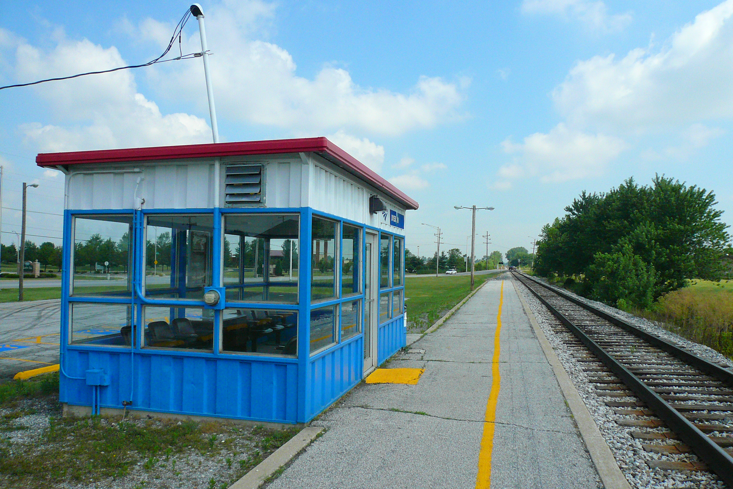 Looking RR west.